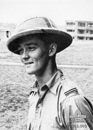 AWM caption : SEMBAWANG, SINGAPORE, 1940-08. PORTRAIT OF FLYING OFFICER CLARENCE HADDON (SPUD) SPURGEON OF NO 8 SQUADRON, ROYAL AUSTRALIAN AIR FORCE.